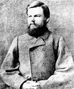 Robert Cobb Kennedy 1st Louisiana Regular Infantry CSA. Hanged as a spy and sabateur, at Fort Lafayette in Lower New York Harbor on March 25, 1865. Last Confederate soldier executed by Union troops.